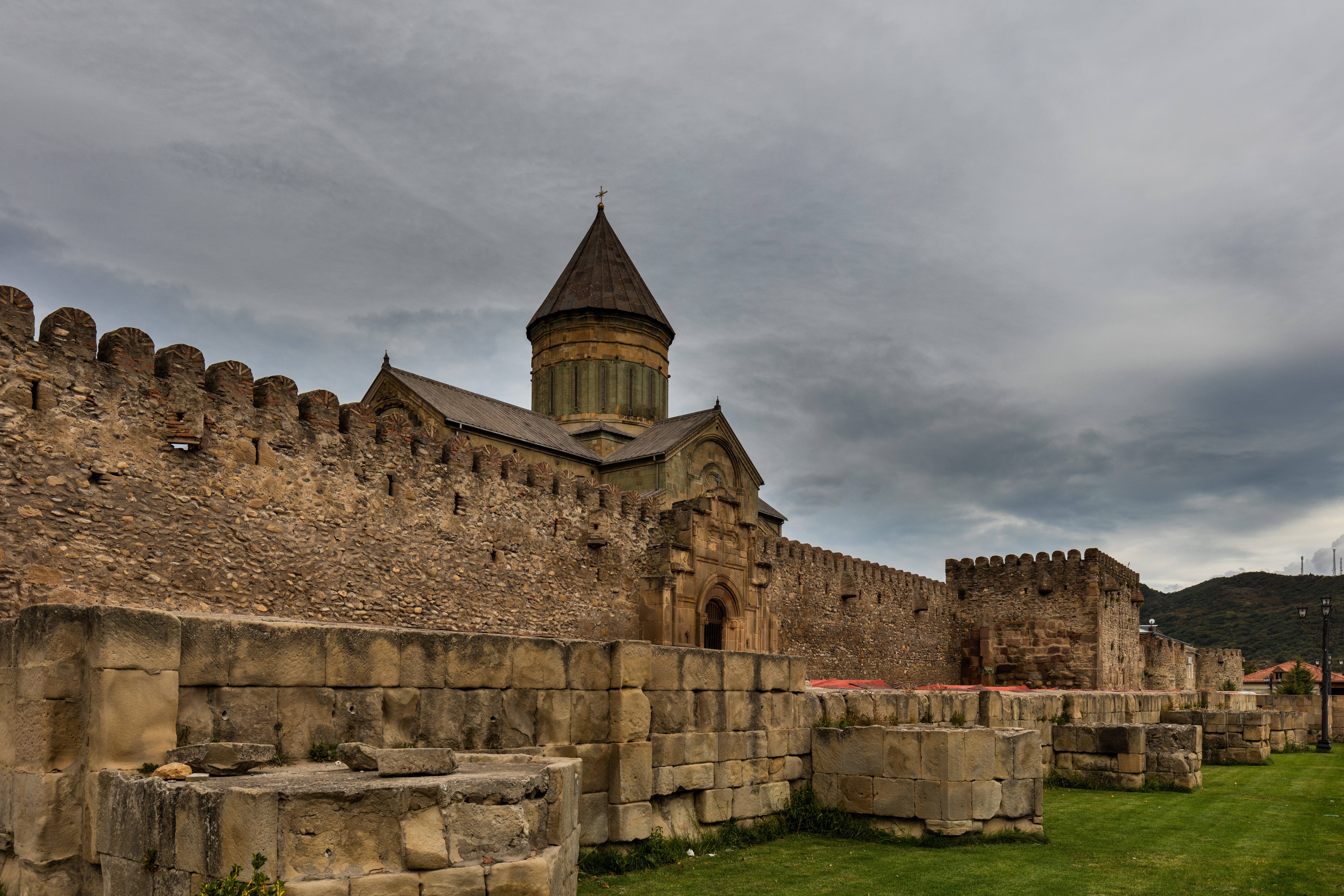 Svetitskhoveli Cathedral. Mtskheta, Georgia.